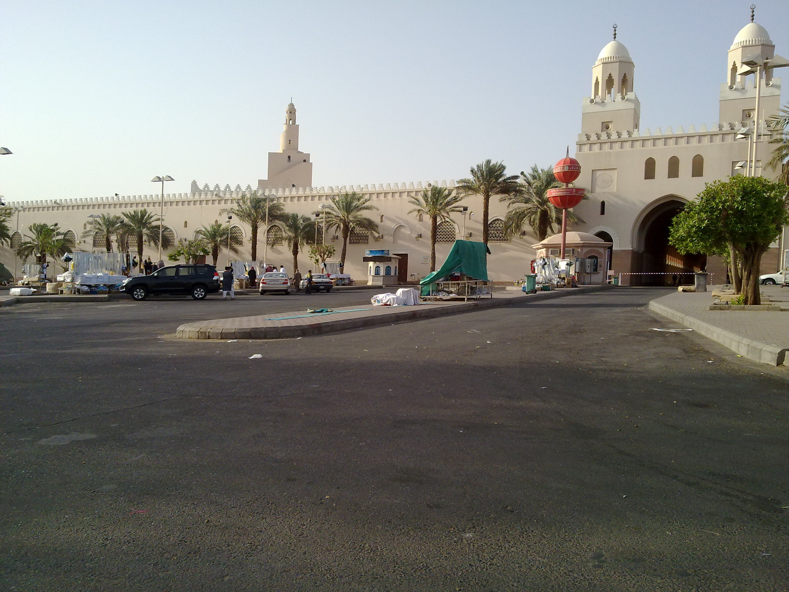 Miqat the people of Medina , Named Abiar_Ali or Zu_'l-Hulafa